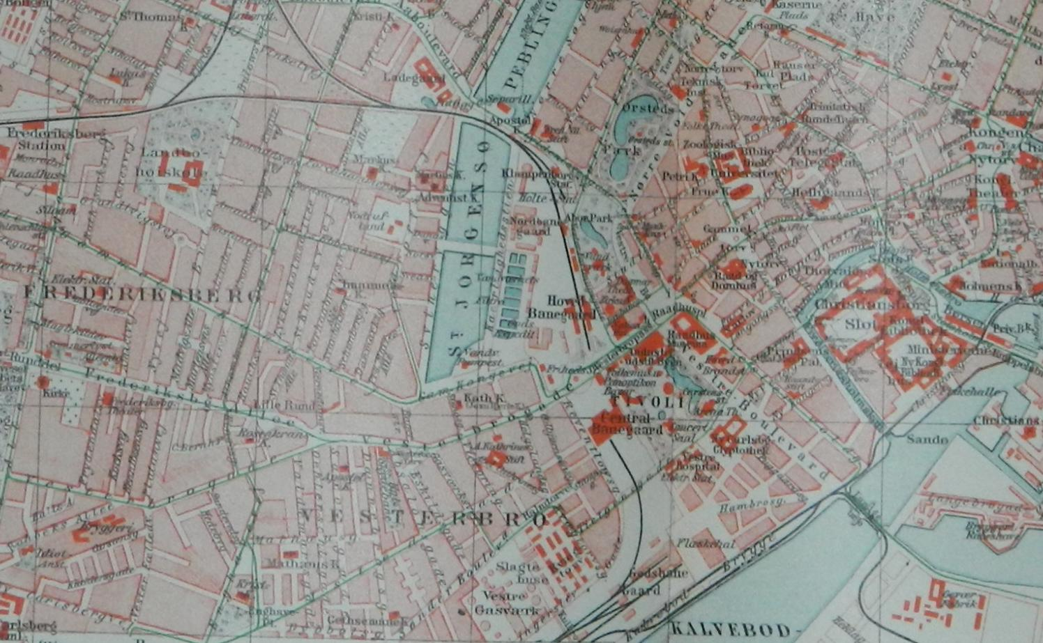 Map of central Copenhagen around 1905, before undreground tunnels existed in Copenhagen